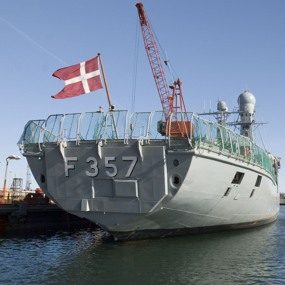 The stern on Danish navy vessel Thetis